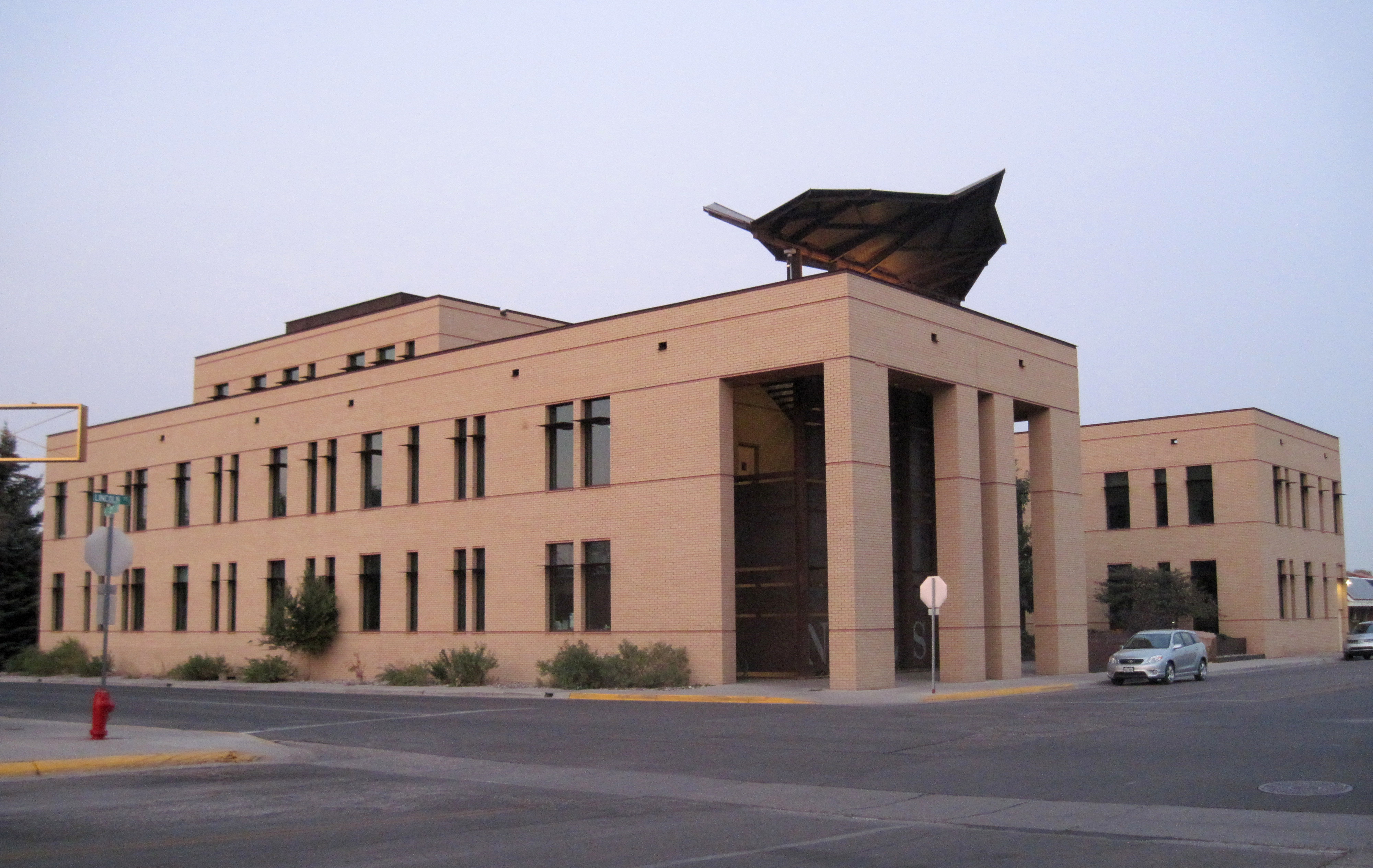 National Outdoor Leadership School (NOLS), Rocky Mountain Branch, Lander, Wyoming. The building also serves as the school's main international headquarters. It has been used by the organization since 2002.